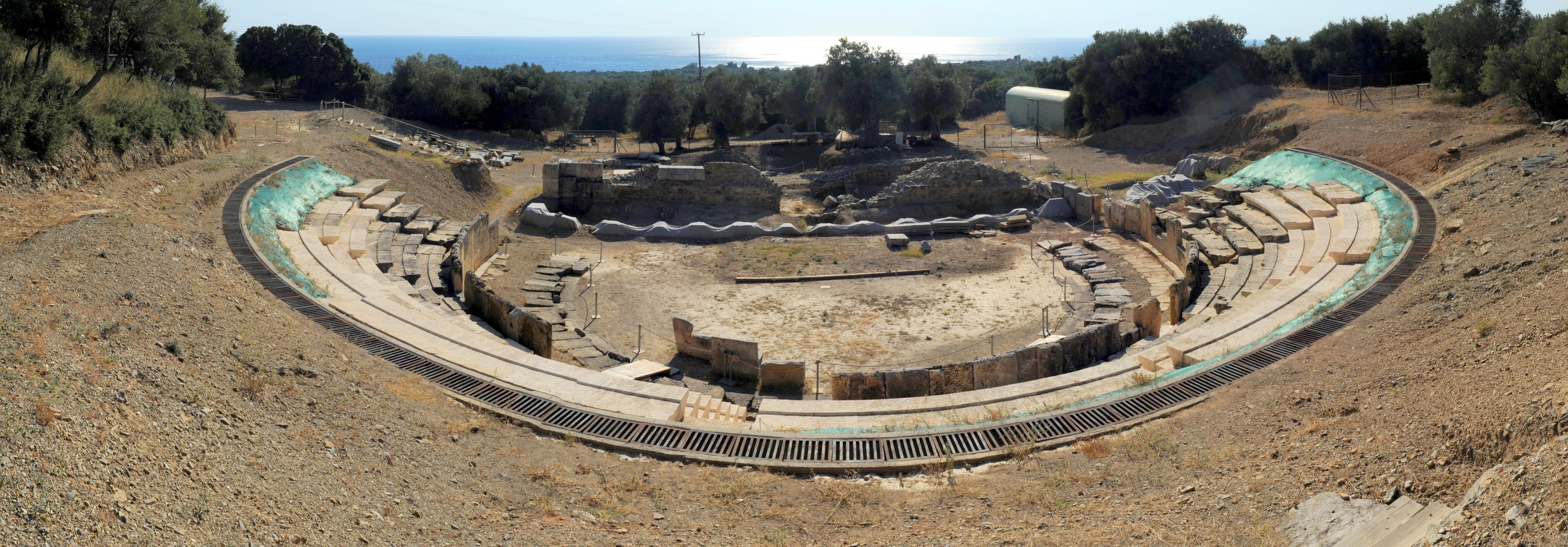 Panoramic image of ancient theater of Maronia, Rhodope, Thrace, Greece.